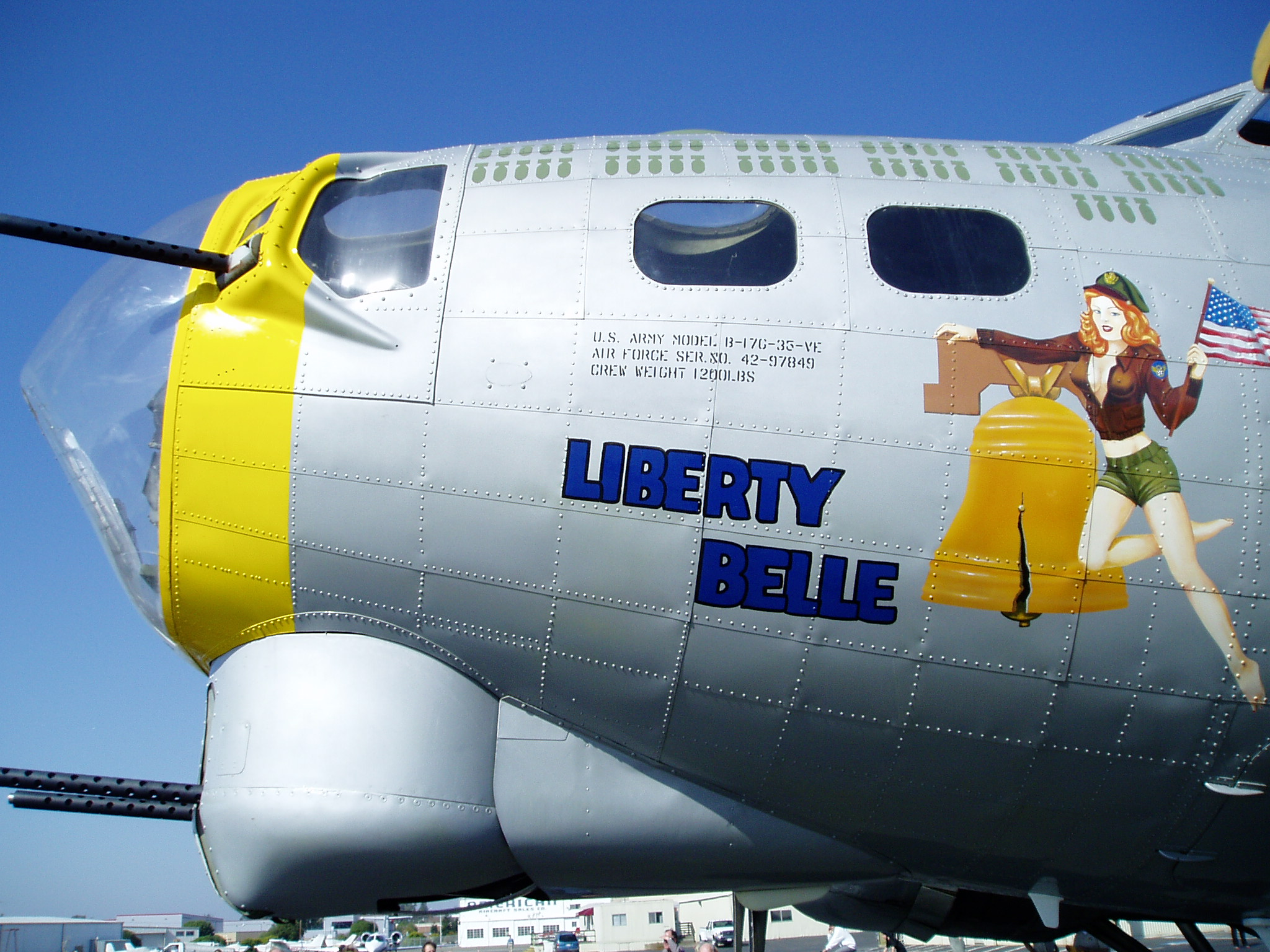 The B-17 "Liberty Belle" nose artwork